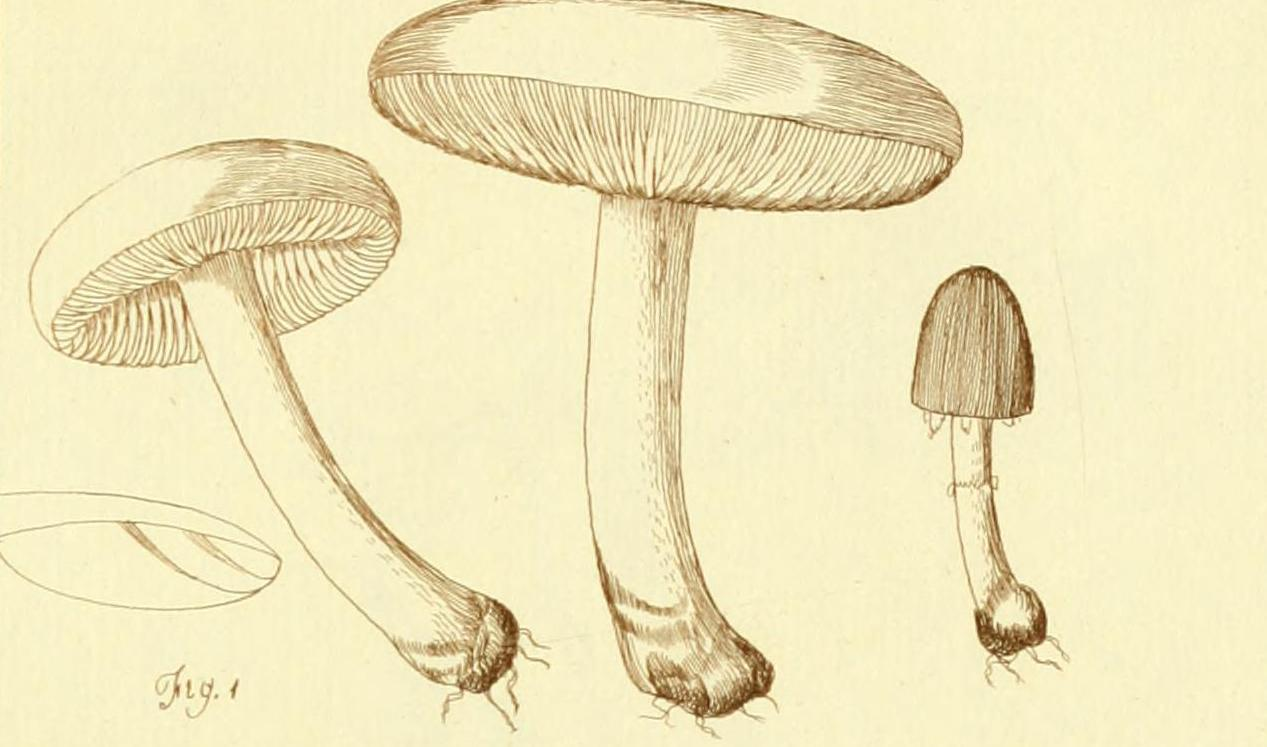 Drawing of Agaricus durus (syn. Agrocybe dura)